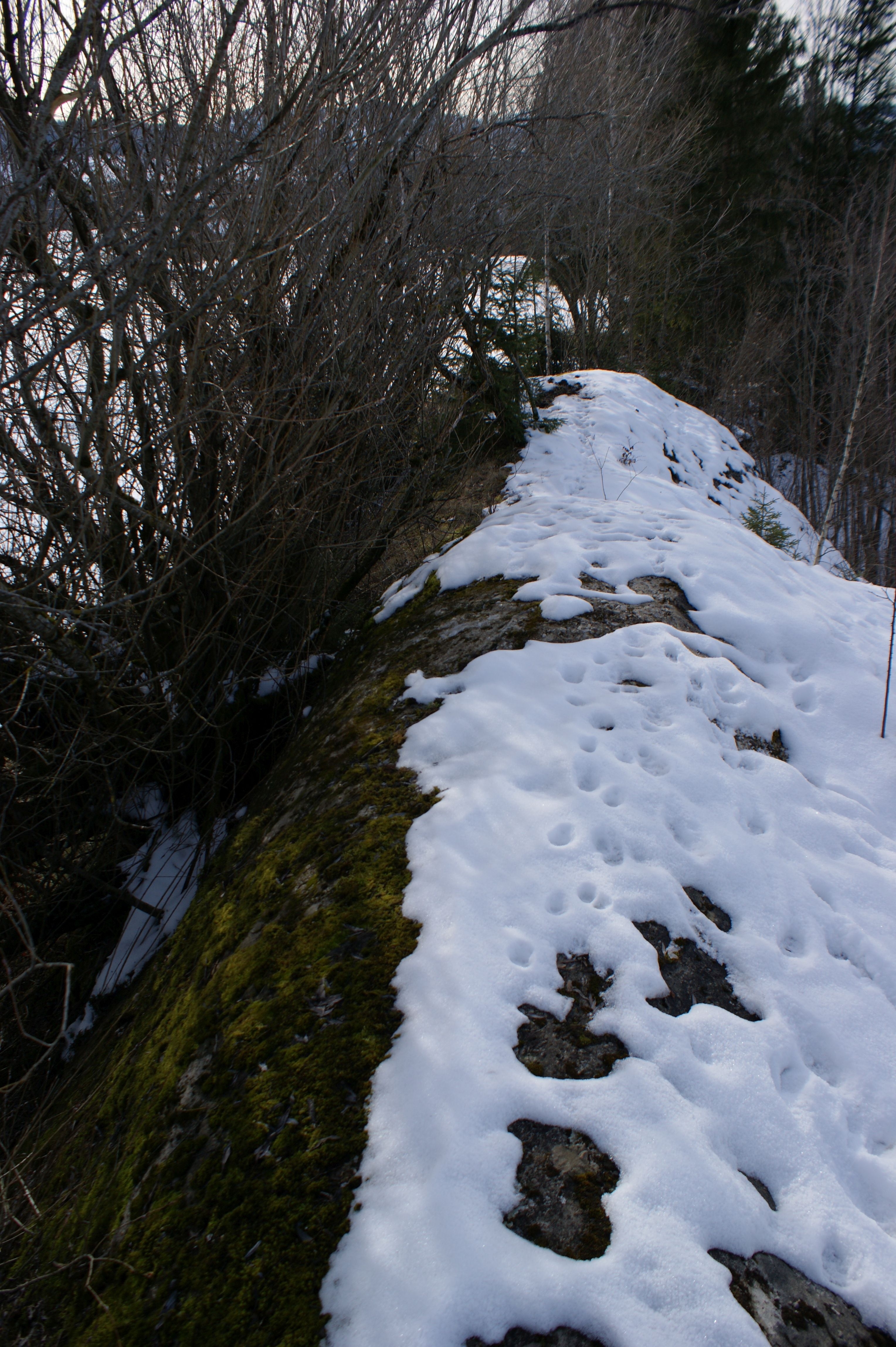 Natural monument "Gletscherschliff" (meaning: Glacial striation, Corrasion, Glacially abraded rocks) in Riefensberg, Vorarlberg, Austria.